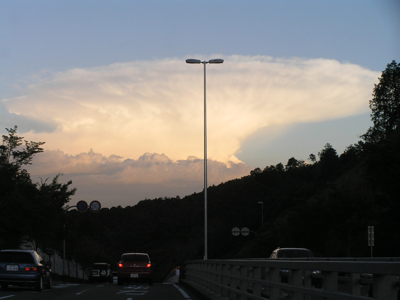 A Cumulonimbus clouds in Kawanishi city, Hyougo prefecture, Japan.